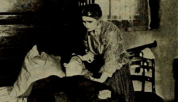 Still from the American comedy drama film Where's My Wandering Boy Tonight? (1922) with Cullen Landis and Virginia True Boardman, on page 62 of the May 1922 Photoplay Magazine.